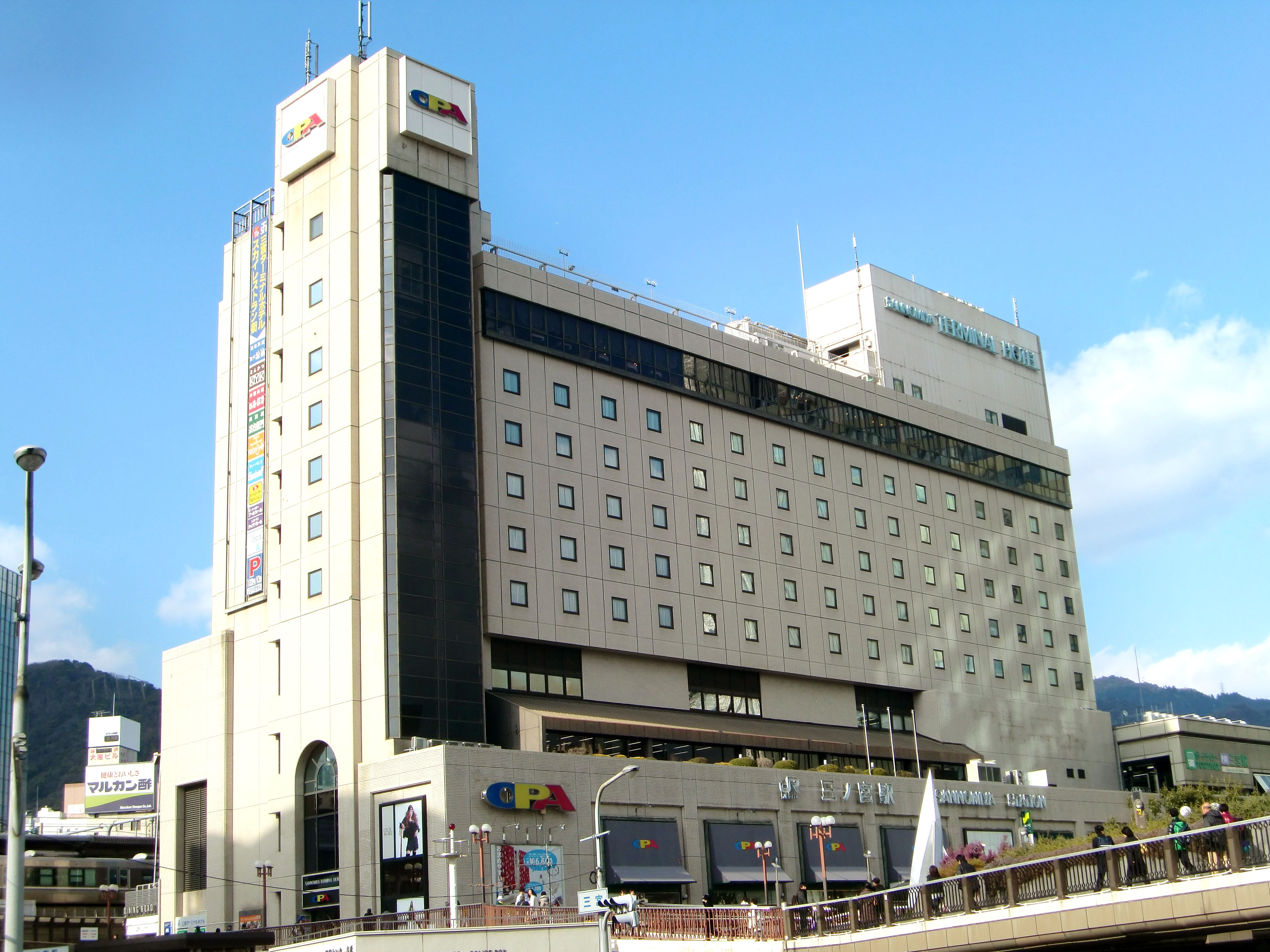 Sannomiya Terminal Building,8-1-2 Kumoidori Chuo-ku Kobe-City hyogo Japan.